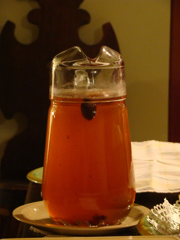 Dried plum compote